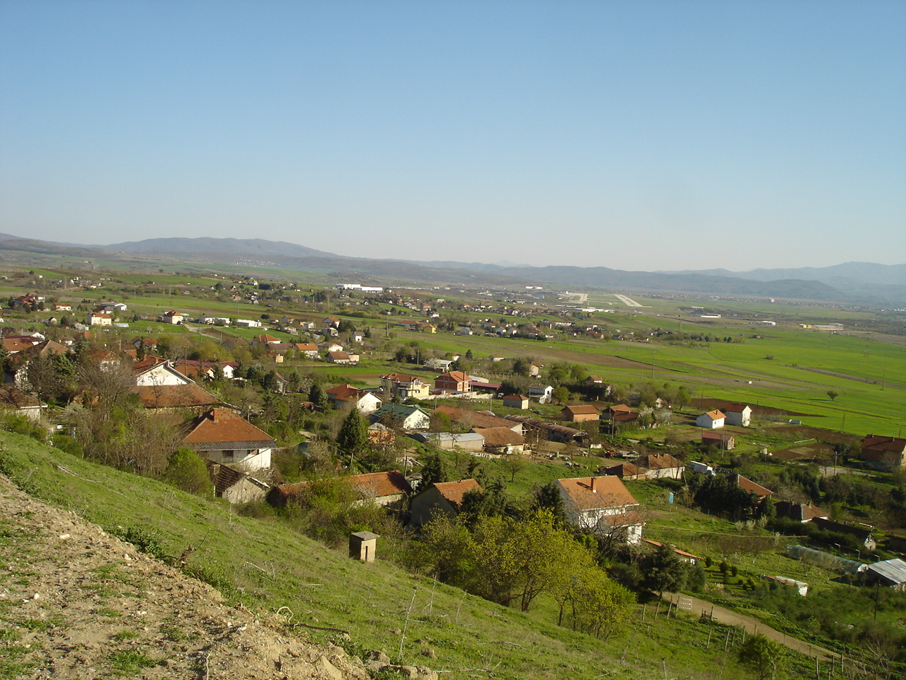 village of Ajvatovci, near Skopje, Macedonia